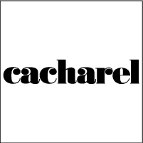 Cacharel logo.